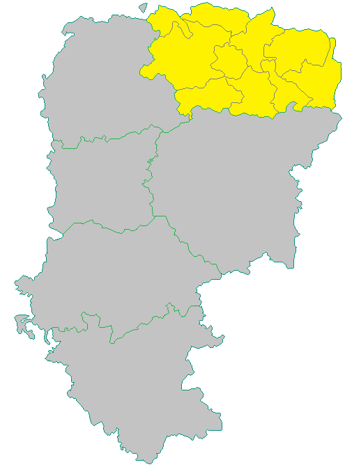 Map of cantons in the district of Vervins